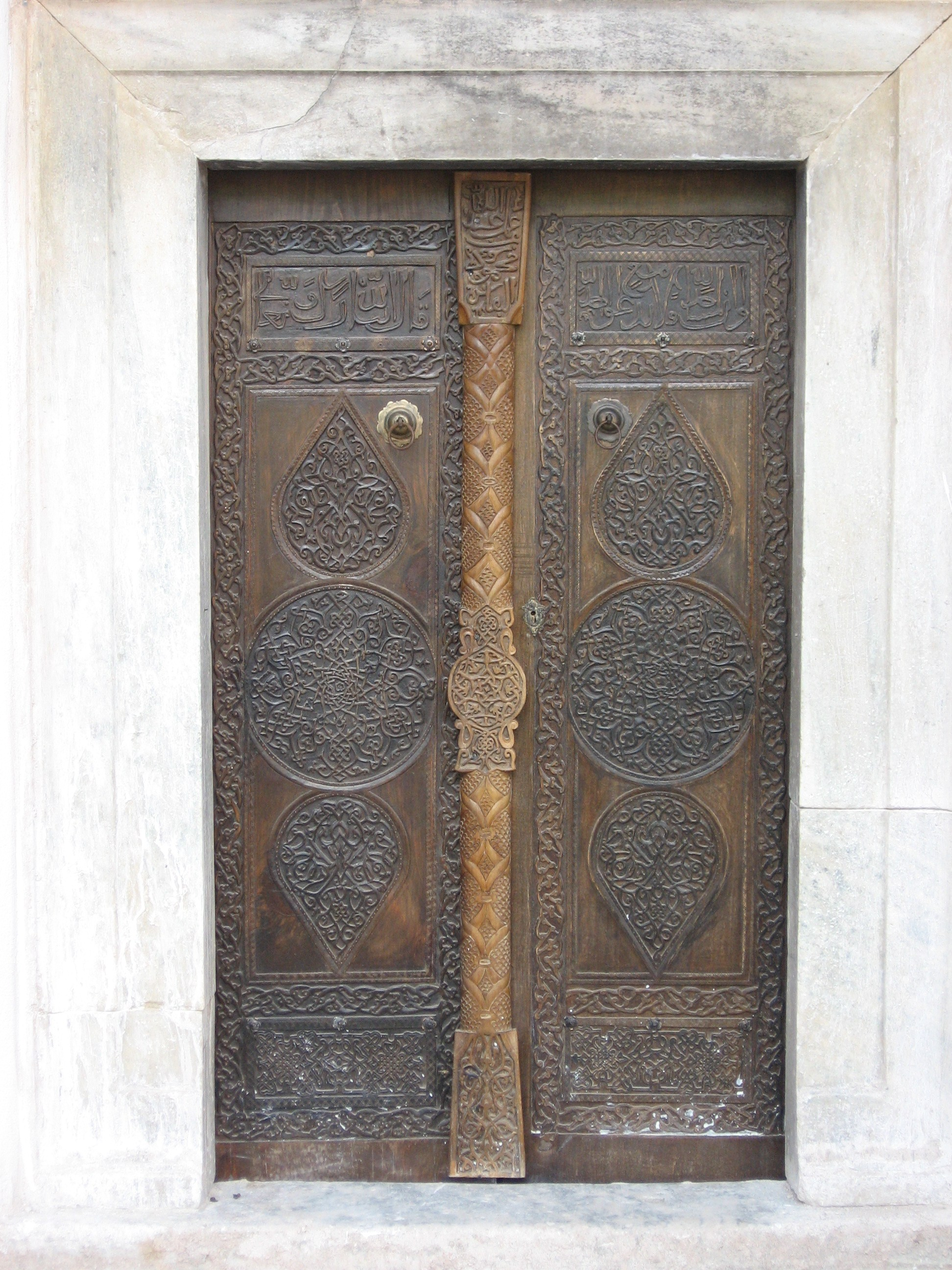 Reproduction of the carved main doors of Mahmut Bey Camii in Kasabakoi, near Kastamonu, Turkey.